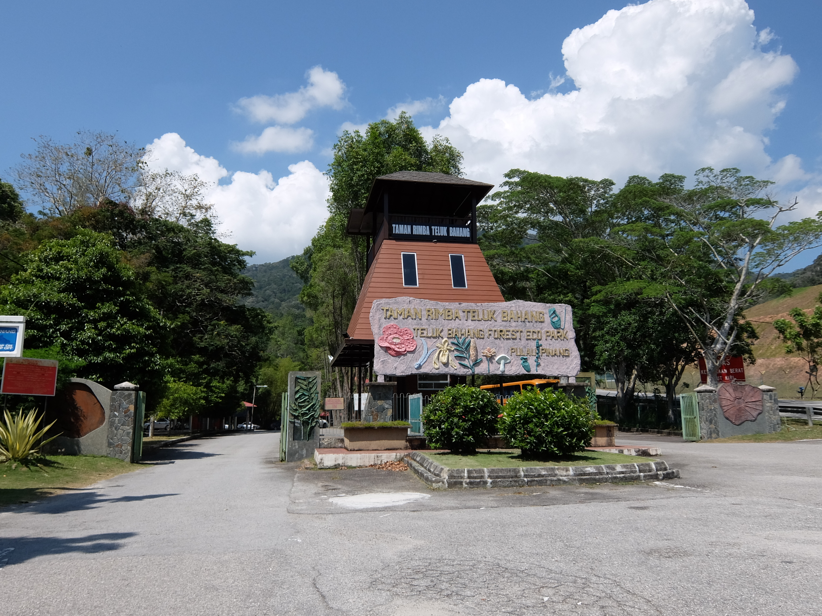 Teluk Bahang Forest Eco Park, Teluk Bahang, Southwest Island, Penang, Malaysia